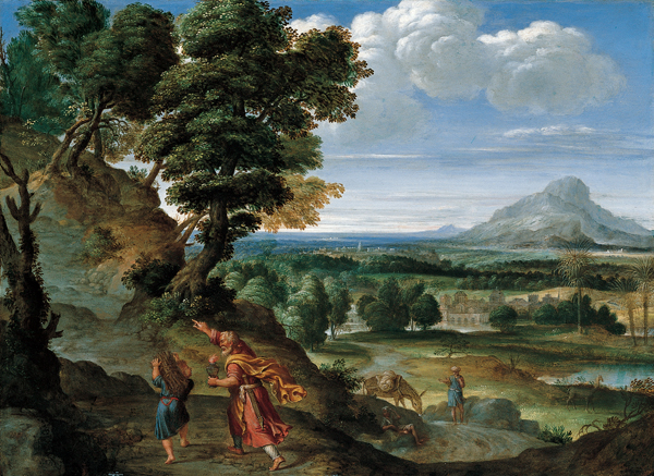 Abraham Leading Isaac to Sacrifice